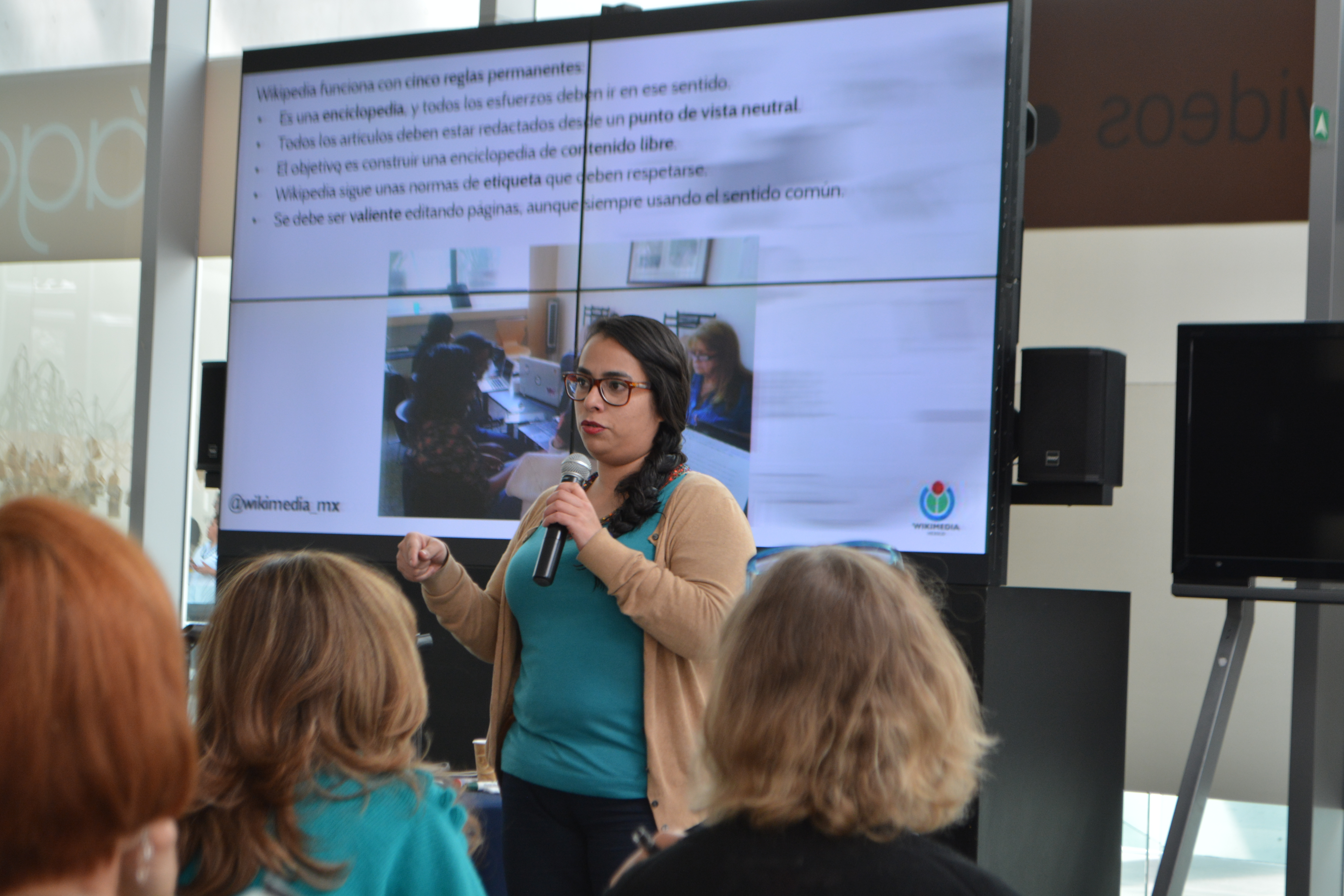 Mexico Art and Feminism 2016 editatona workshop prior to the event. Museo Universitario de Arte Contemporáneo, UNAM, Mexico City.